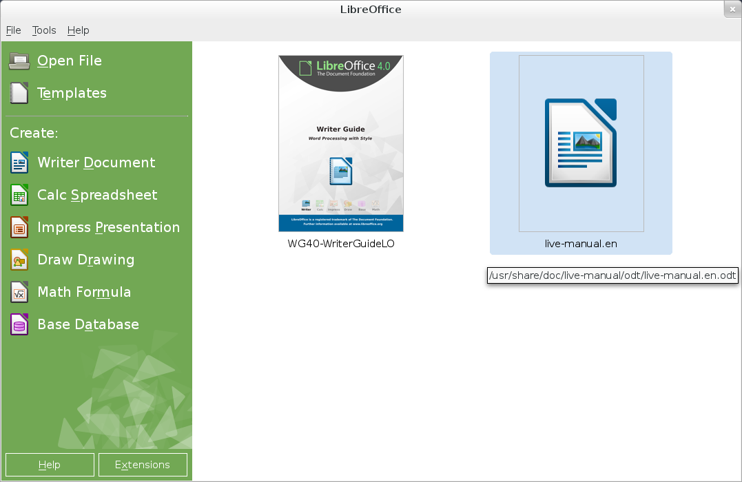 Screenshot of LibreOffice 4.2 Start Center showing two sample files taken on Debian GNU/Linux 7 with GNOME